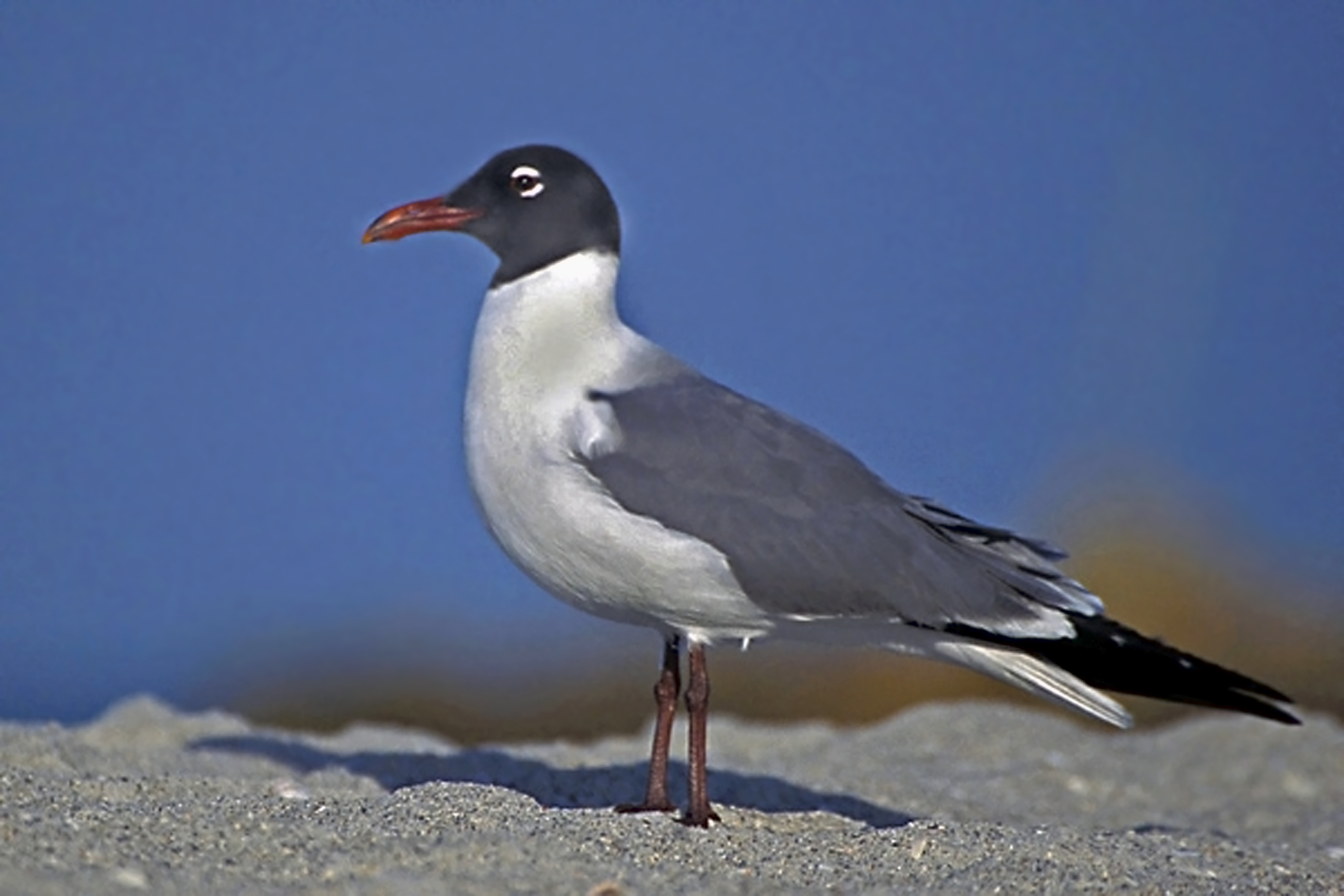 Laughing gulls can be found on Sanibel Island all year.